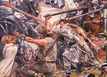 fragment of Wojciech Kossak's "Battle of Grunwald". Details shows Tatar soldier in the battle.